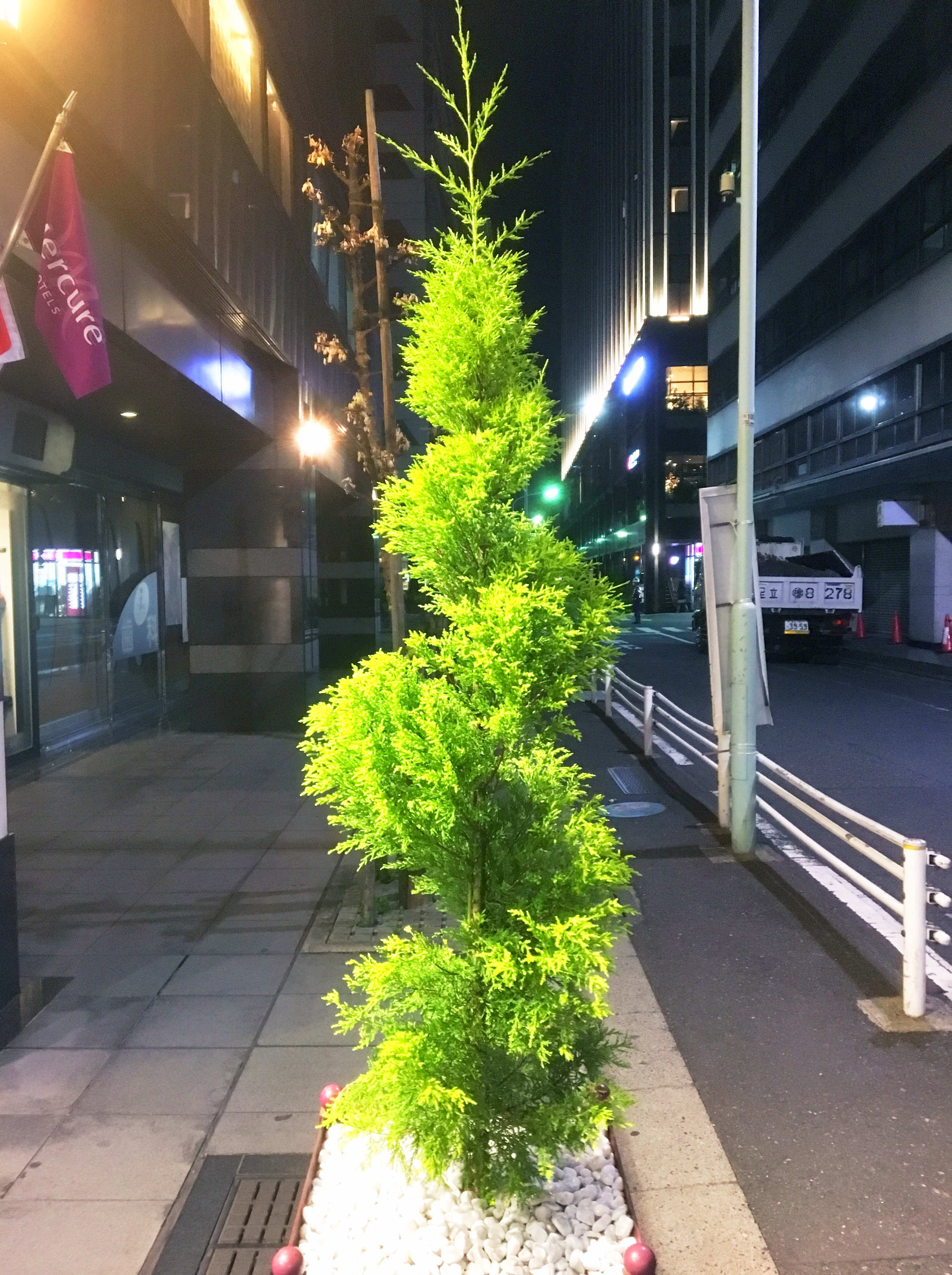 Topiary-Cupressus macrocarpa 'Gold Crest' GINZA TOKYO 2017